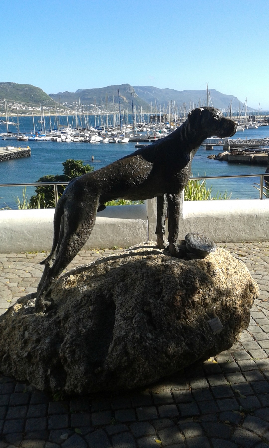 Just Nuisance at Jubilee Square